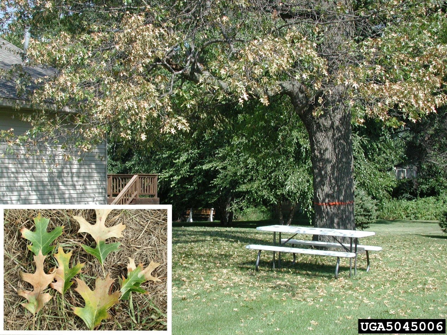 Photograph of leaf and whole tree symptoms of oak wilt